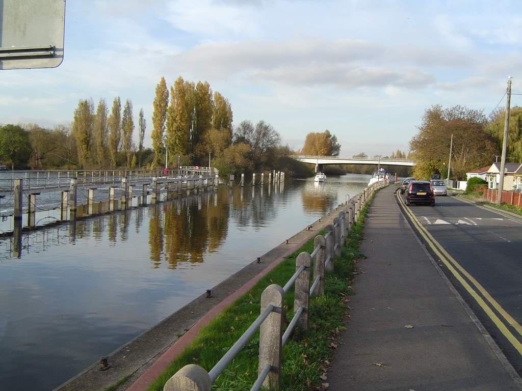 Weir and MS Road Bridge above Chertsey Lock River Thames (copy own work from English wikipedia)